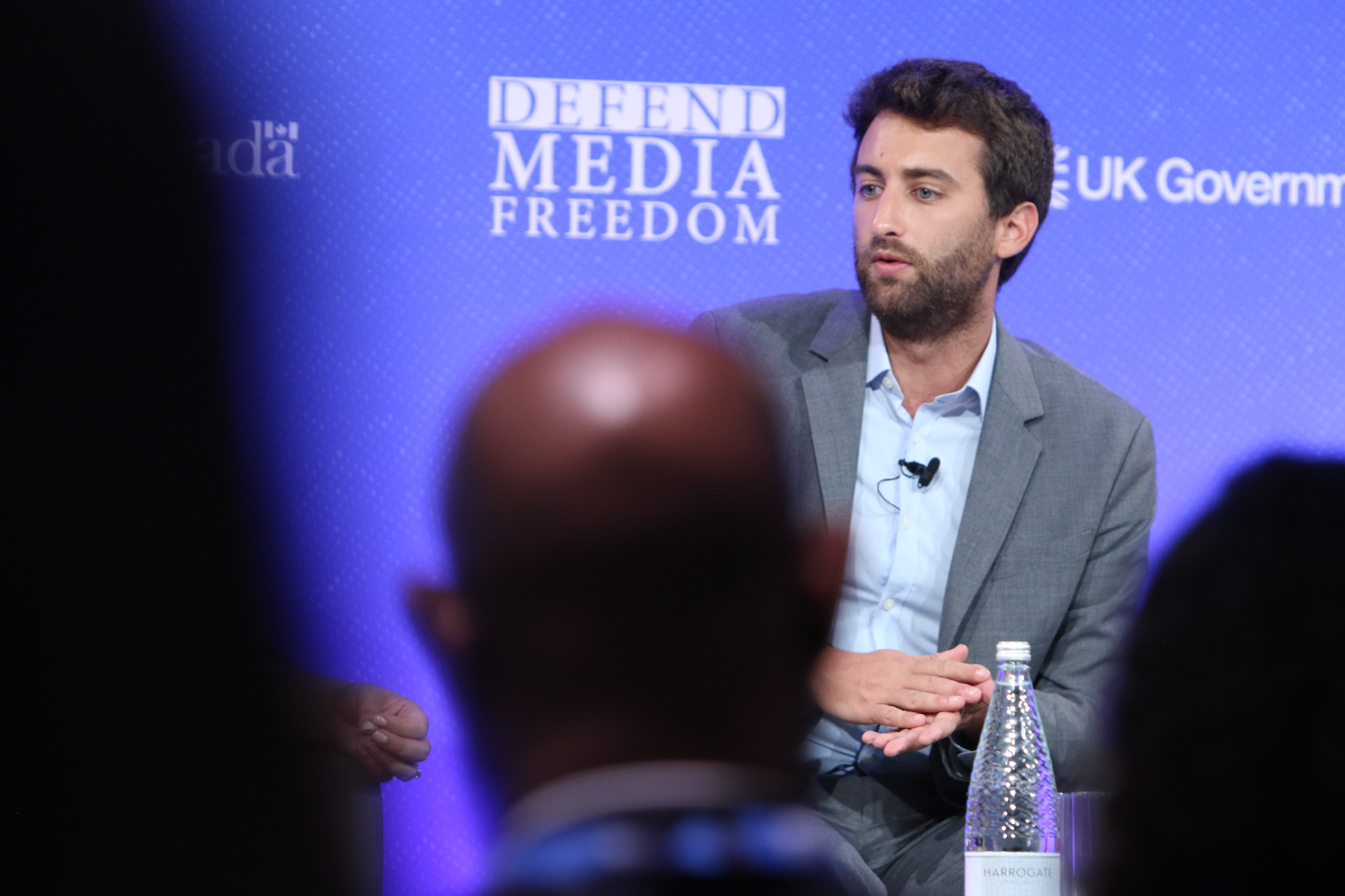 Matthew Caruana, Journalist and son of murdered Maltese journalist Daphne Capuana Galizia at the Global Conference for Media Freedom in London.